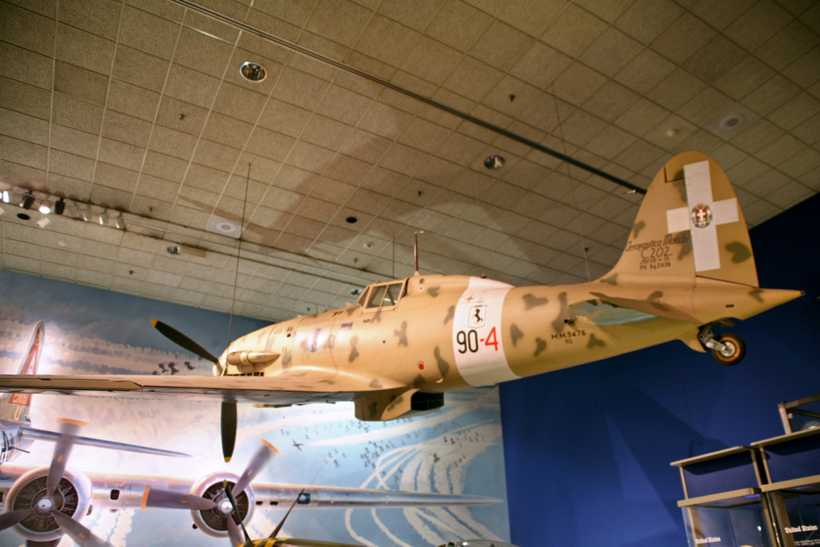 Aeronautica Macchi C.202 Folgore, National Air and Space Museum